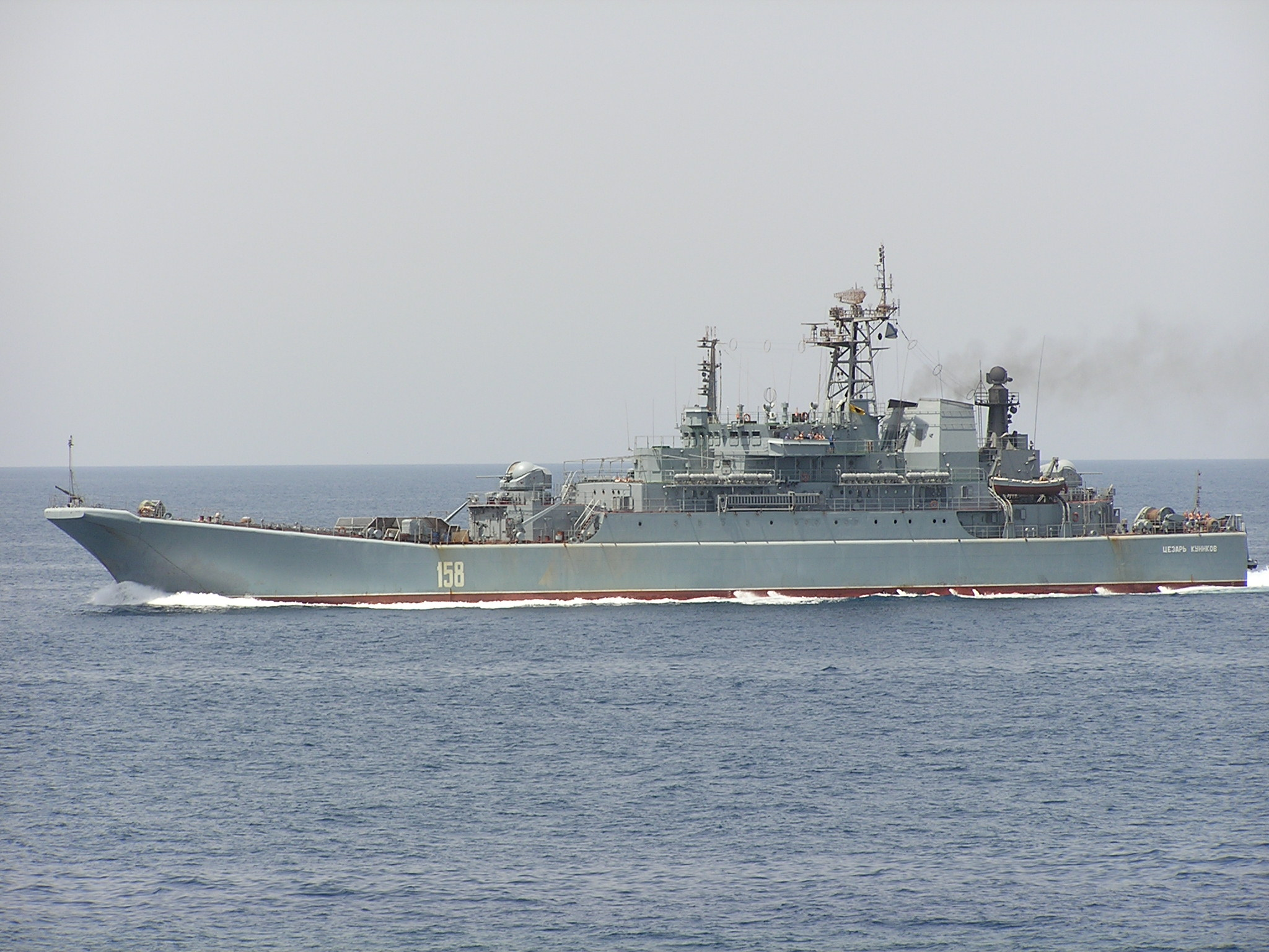 Russian large landing ship Tsezar' Kunikov on the Red Sea.